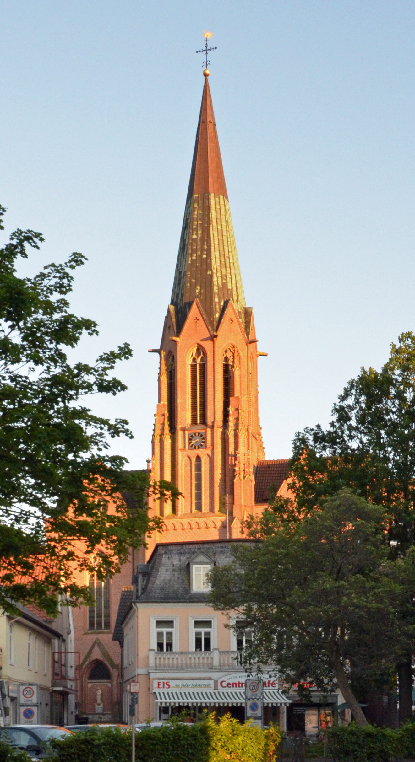 Cultural Heritage Monument in Twistringen Catholic Church